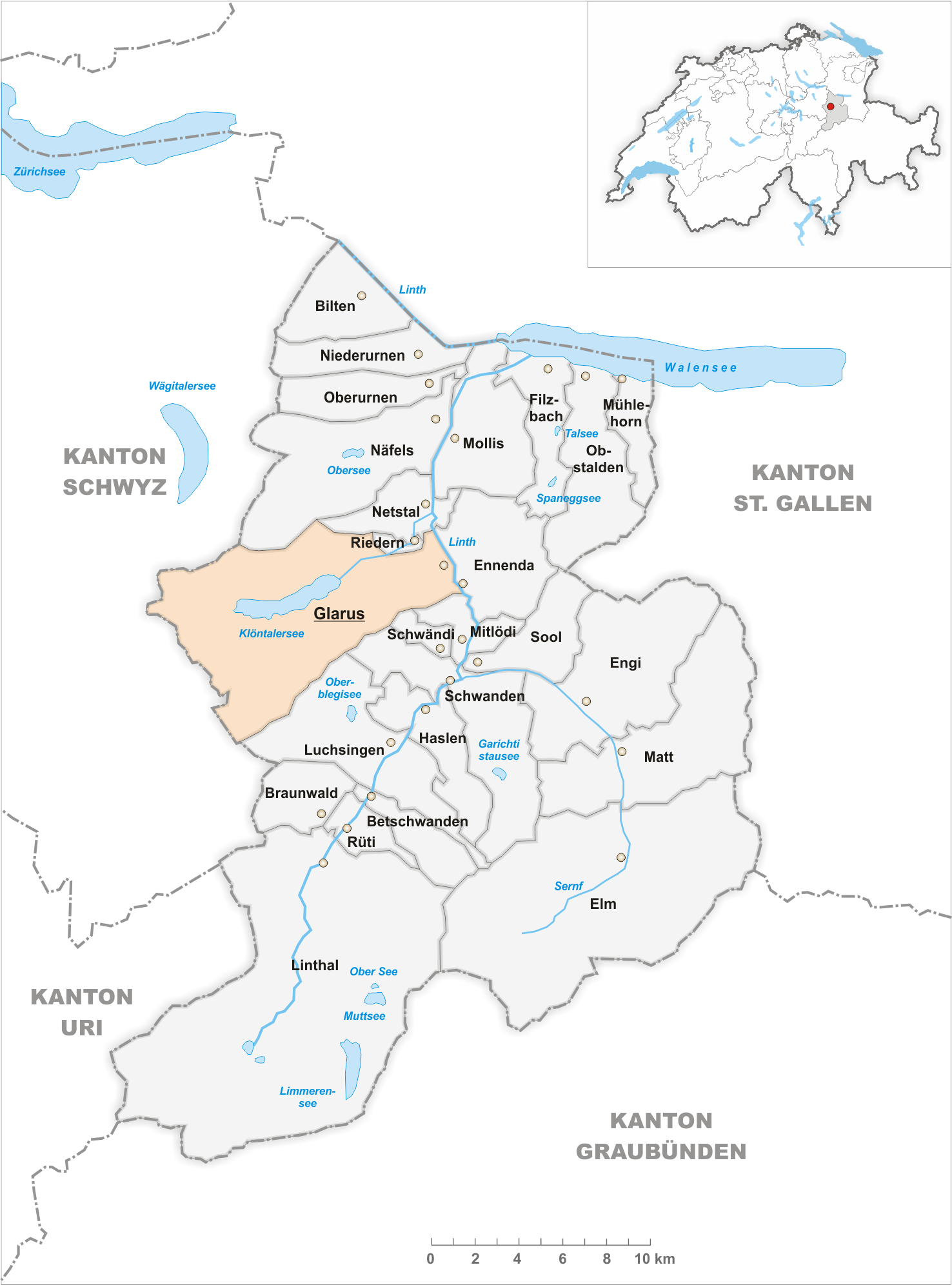 Municipality Glarus